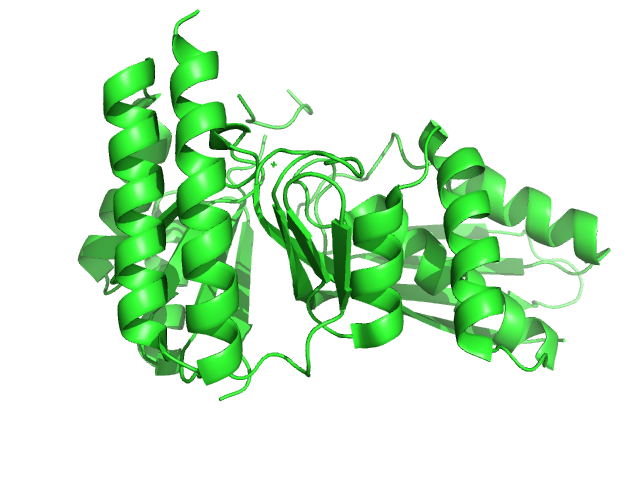 Ribbon diagram of mevalonate kinase from Staphylococcus aureus.